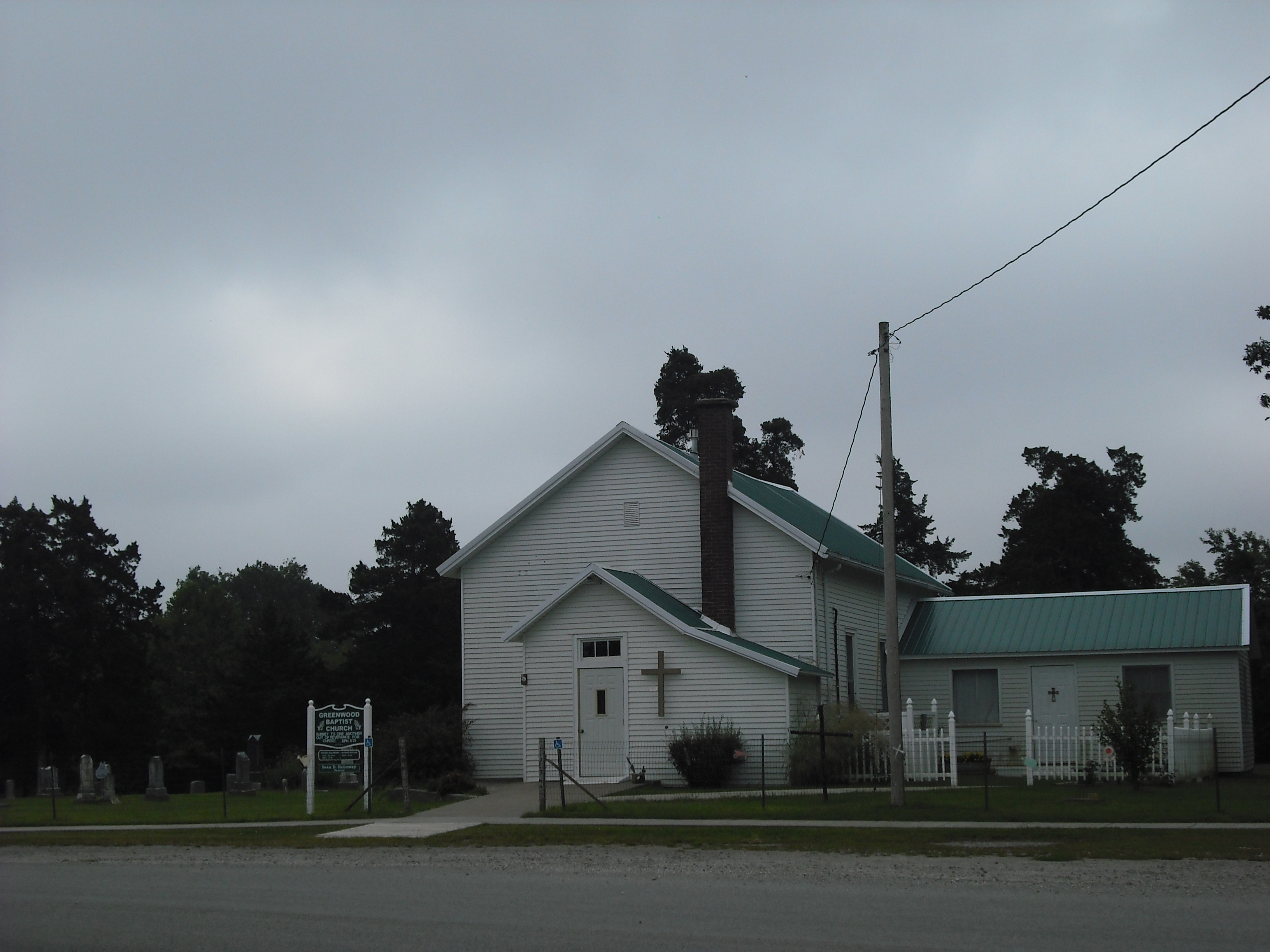 A picture of the Greenwood Baptist Church and Greenwood Cemetery located in Greenwood Township in Franklin County, Kansas.